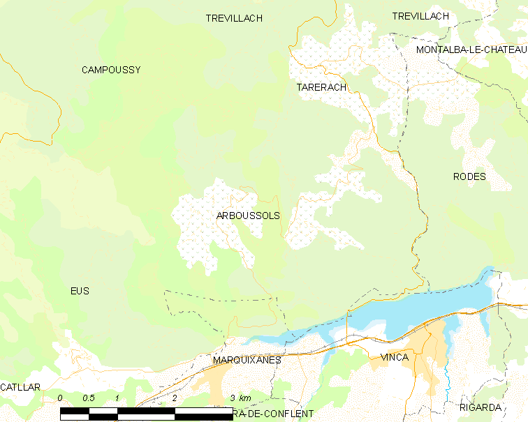 Map of French municipality